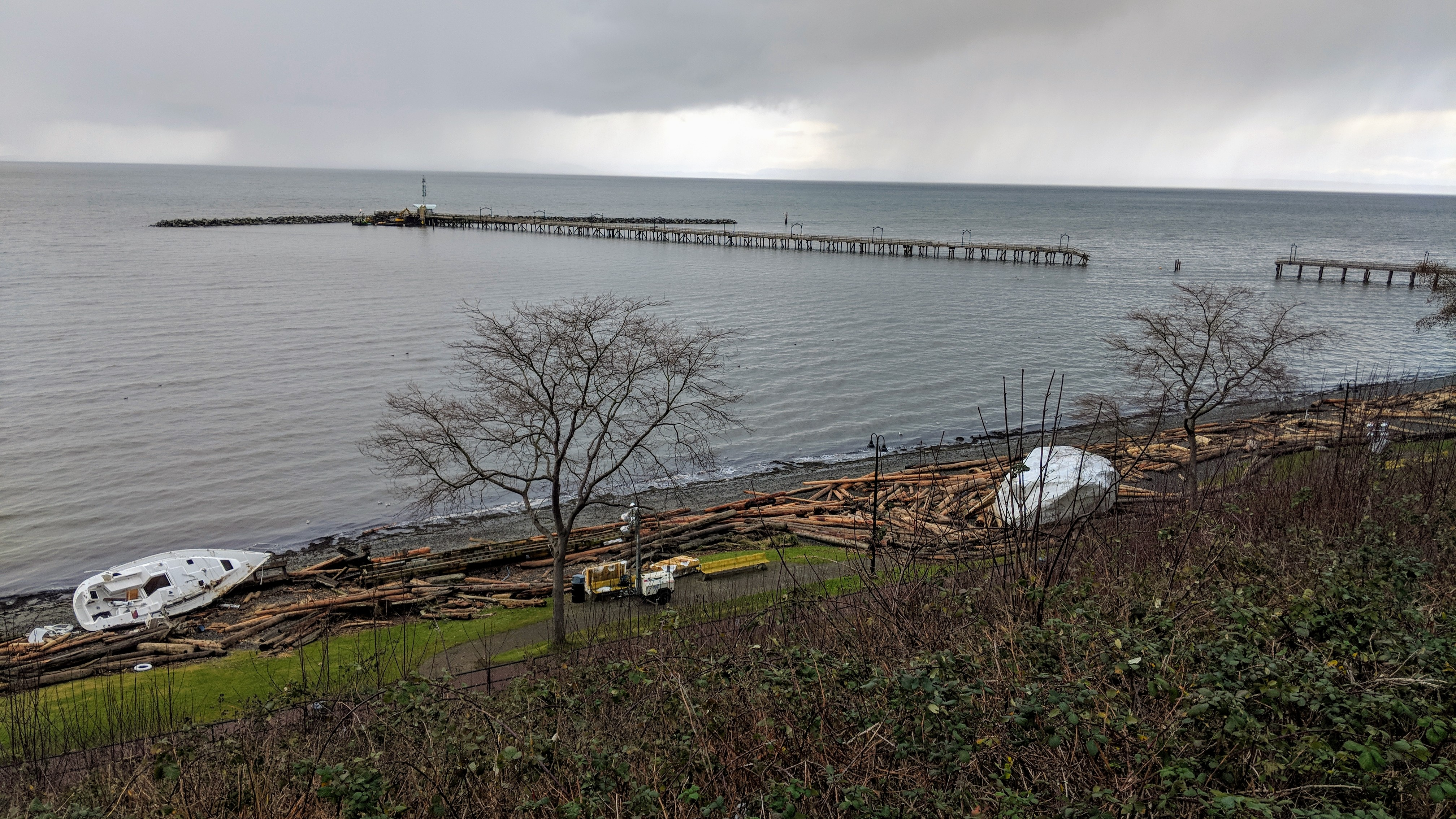 White Rock Pier damage was a result of a windstorm that hit the South Coast of British Columbia on 20 December 2018.